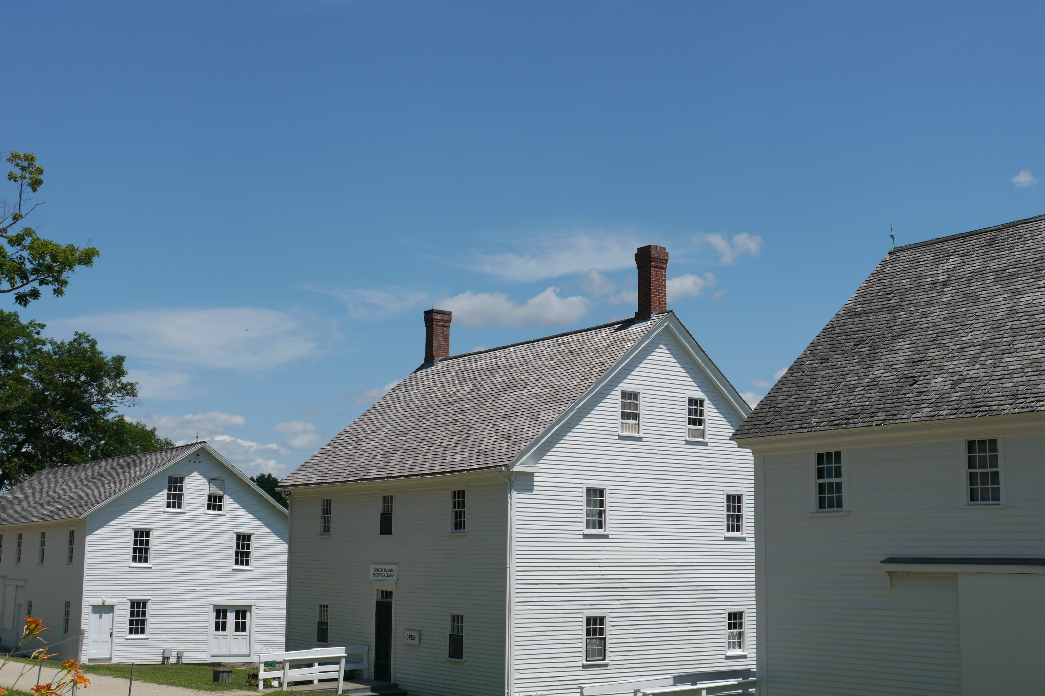 Sabbathday Lake Shaker Village, 707 Shaker Rd, New Gloucester, ME Maine (l-r) Herb House, Boys' Shop (Museum Reception Center), Spinhouse